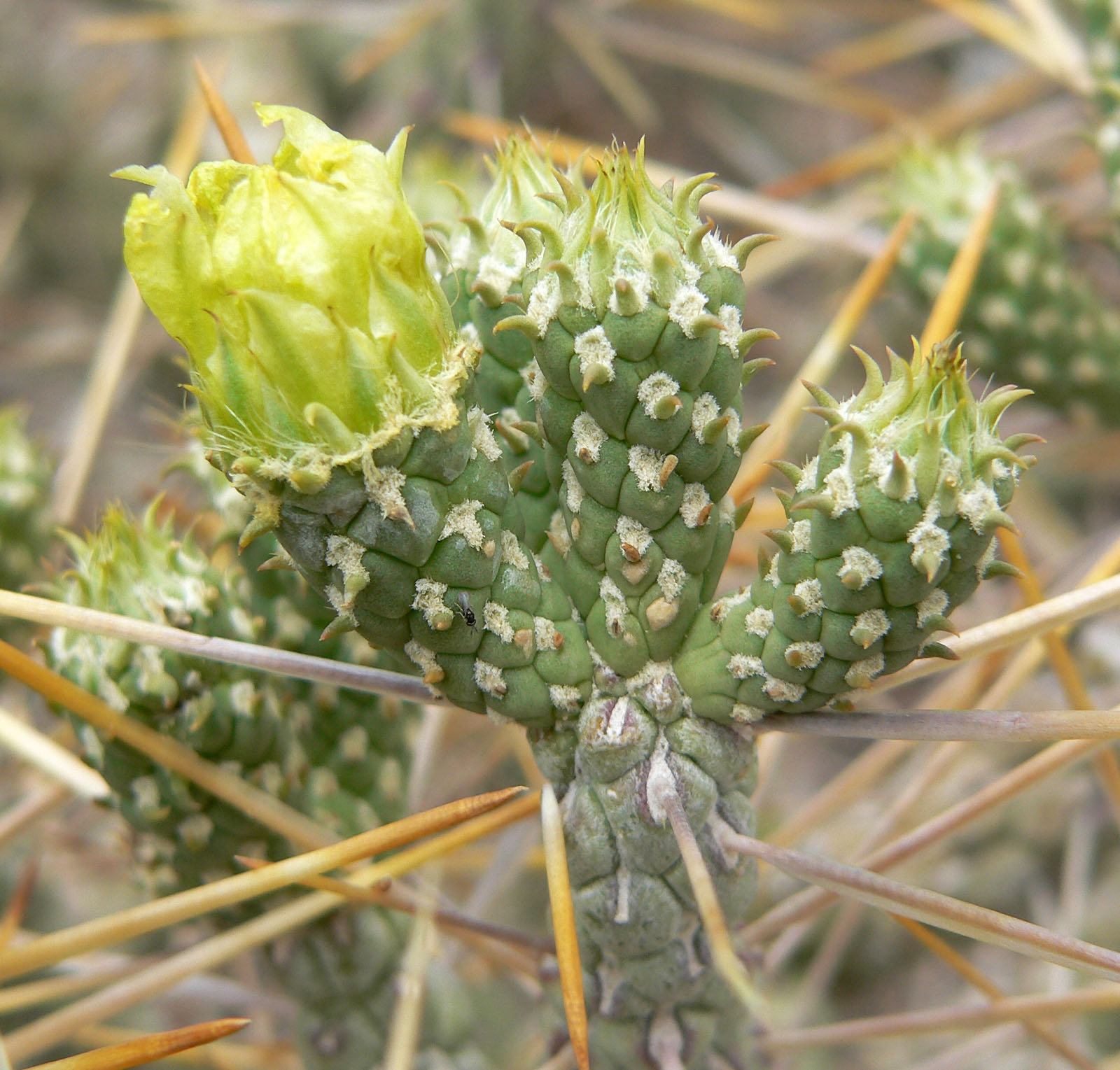 Cylindropuntia ramosissima just southwest of Indian Springs close to the dam, Spring Mountains, southern Nevada (elev. about 1000 m)